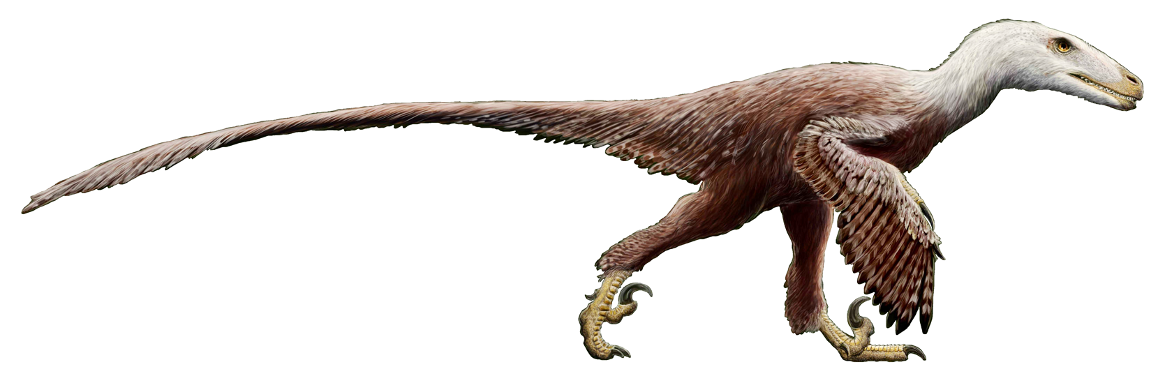 Deinonychus illustration